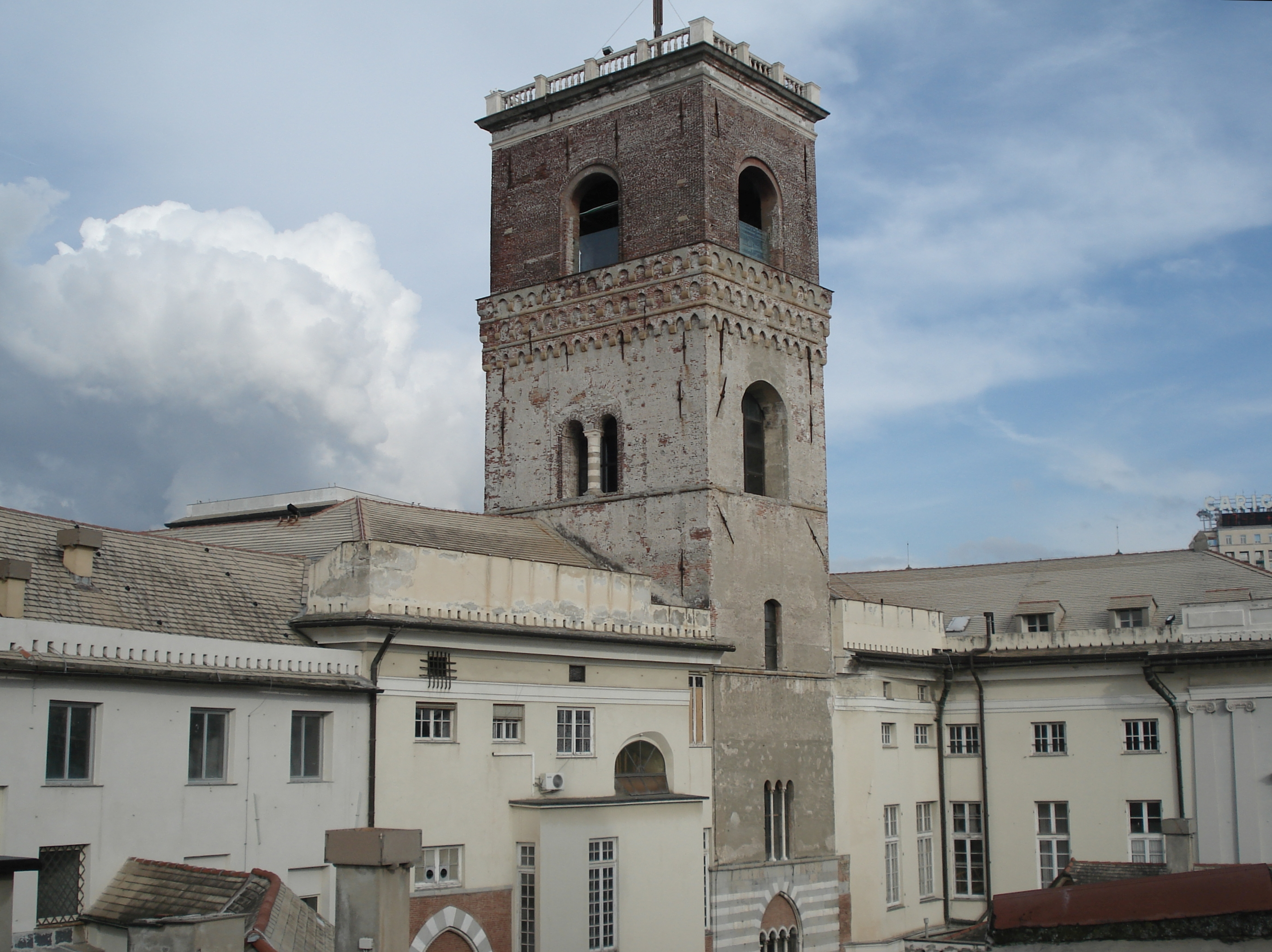 Grimaldina Tower of Doge's Palace in Genoa